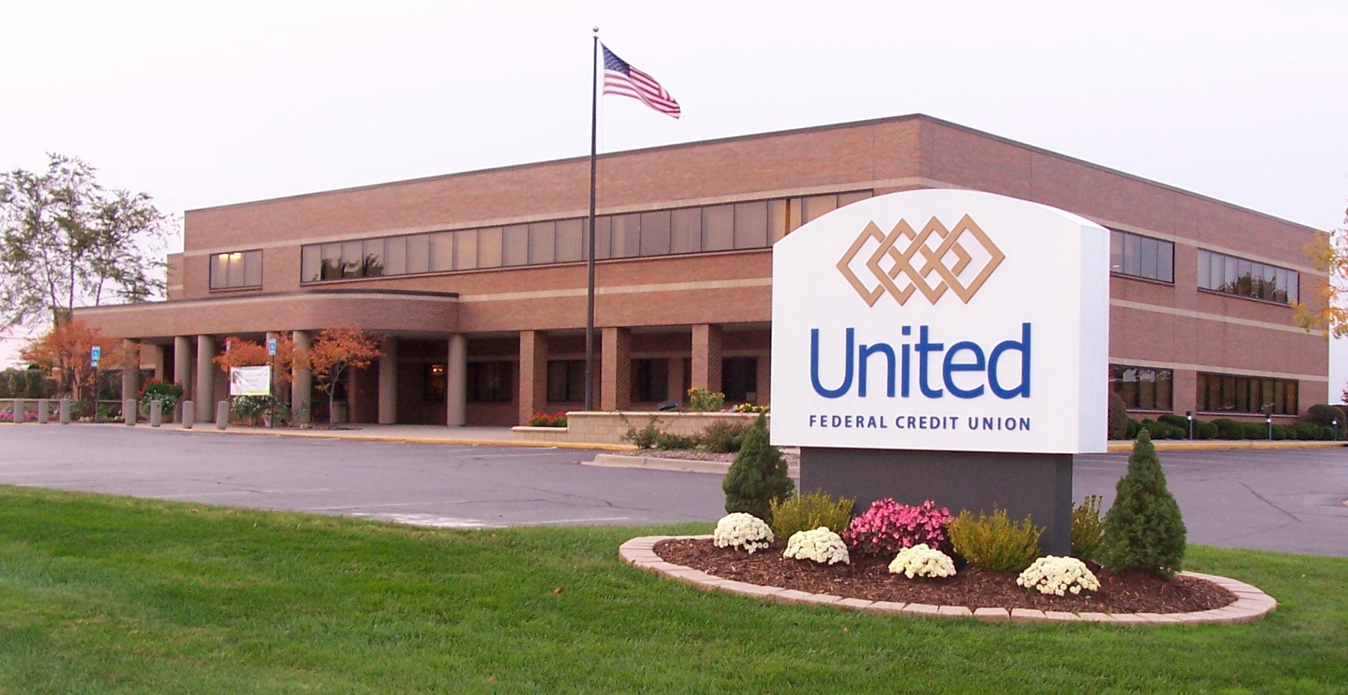 UFCU Headquarters Building